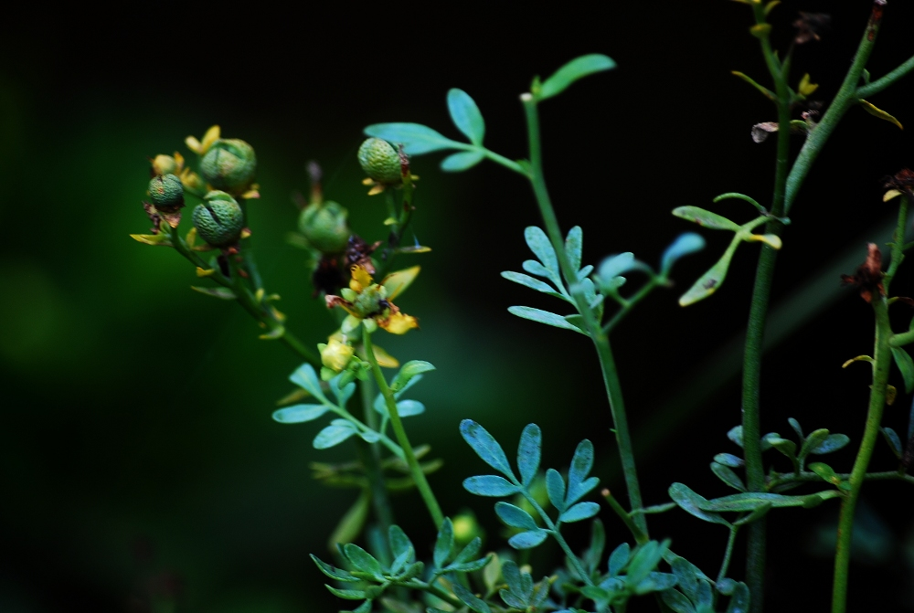 Garden Rue